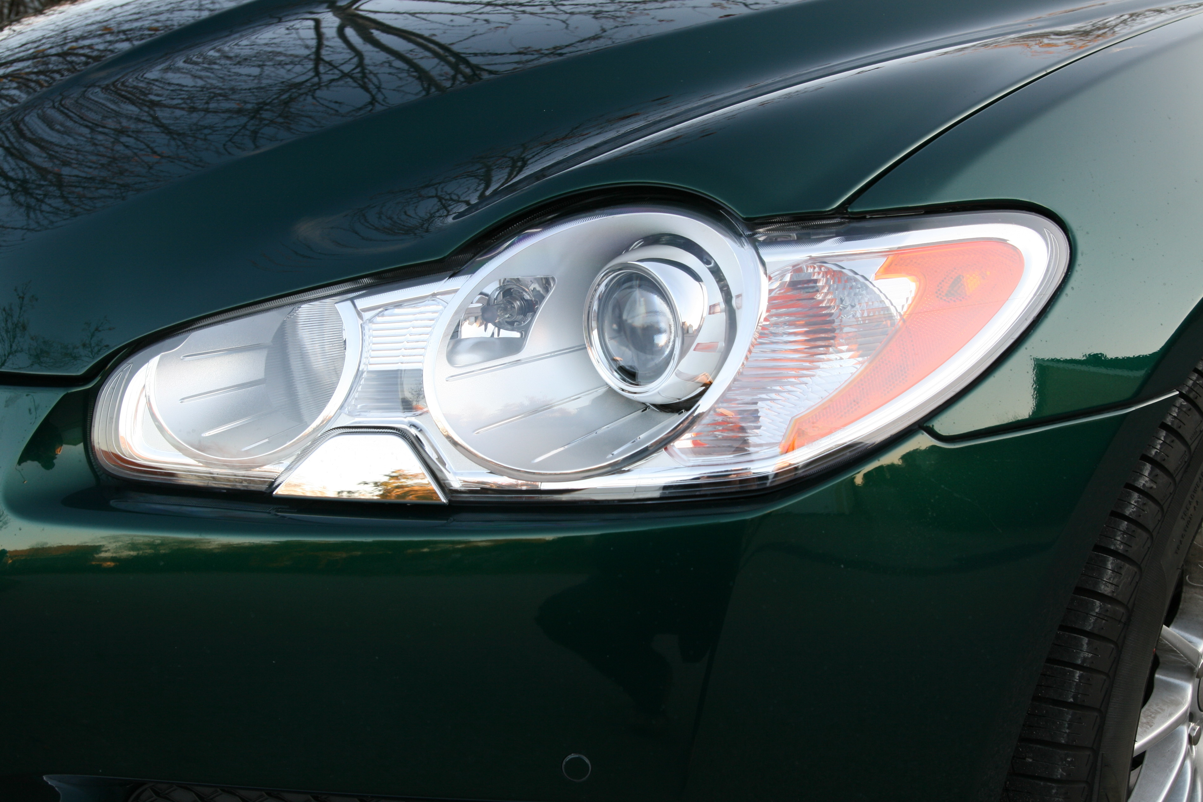 Close-up view of the left-hand side headlight of a 2008 Jaguar XF.